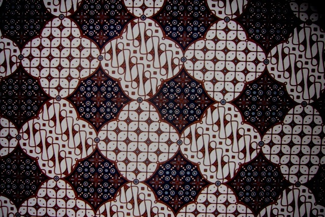 Typical inland batik from Yogyakarta, IndonesiaBahasa Indonesia: Batik pedalaman dari Yogyakarta, Indonesia